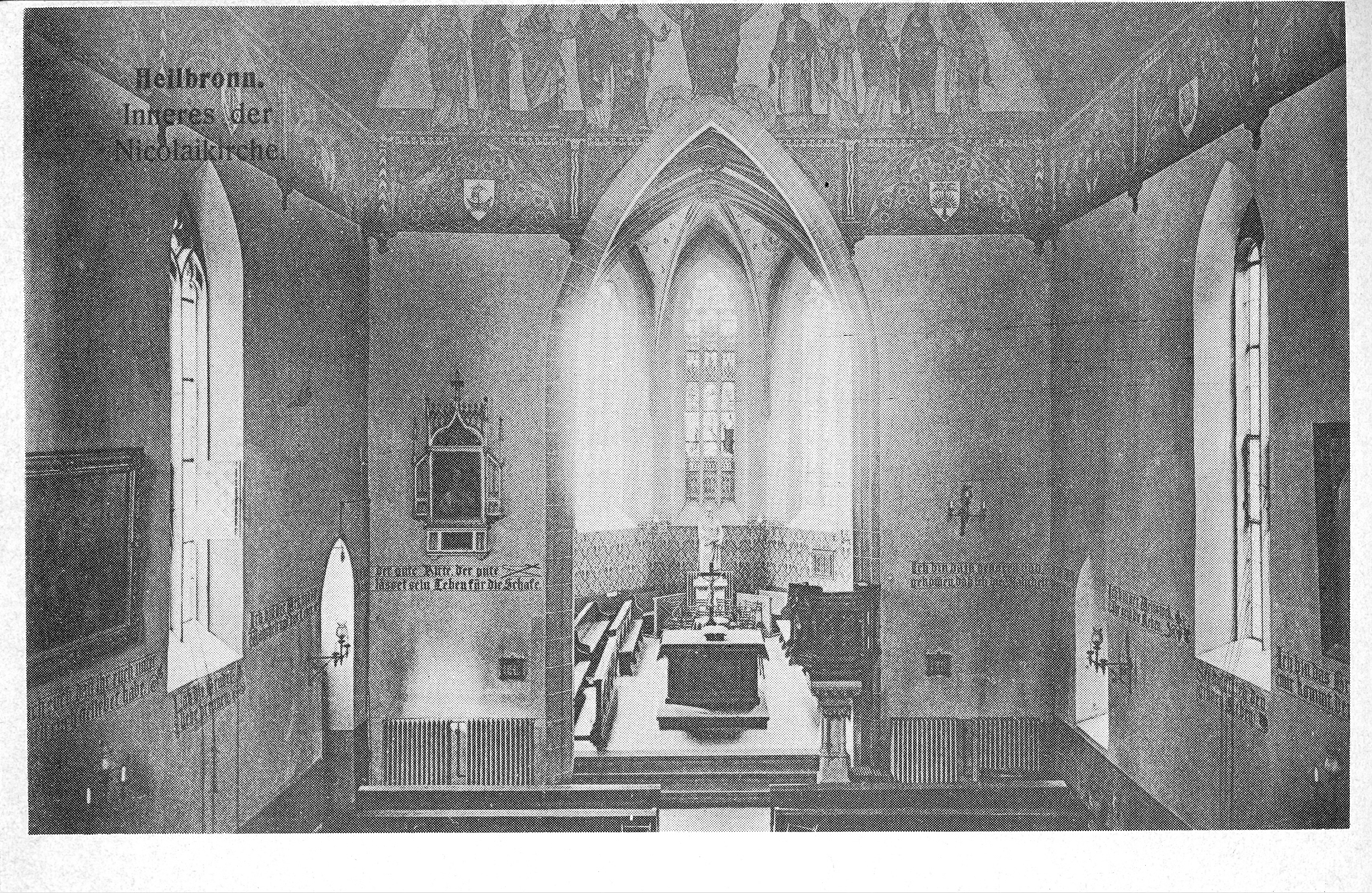 Heilbronn, Nikolaikirche, Kircheninneres um 1900. Quelle - Wilhelm Steinhilber, Evangl. Gesamtkirchengemeinde HN. Teil 2, Die Nikolaikirche zu Heilbronn, Heilbronn 1965.JPG